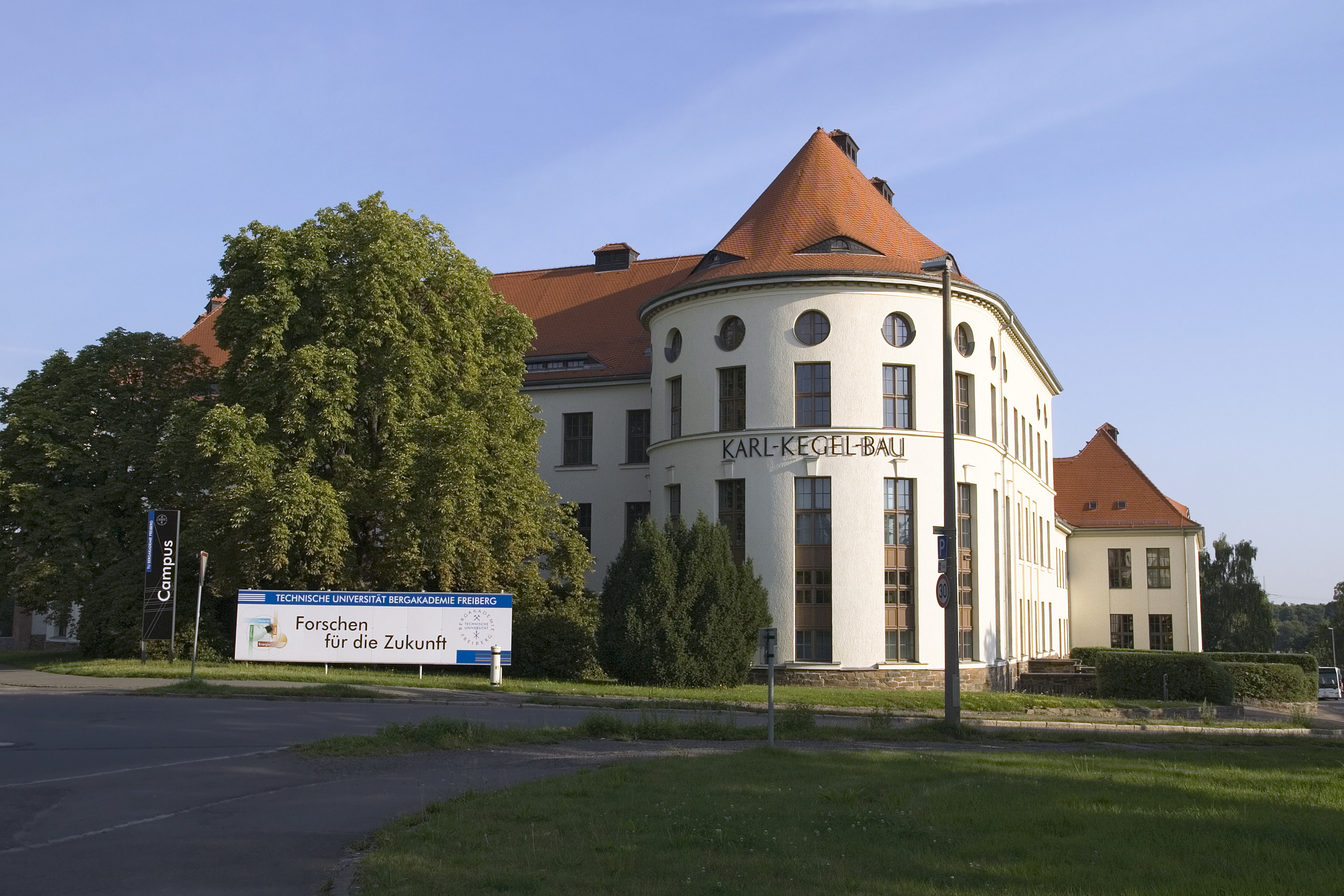 Freiberg, University, campus, building named after the mining engineer Karl Kegel